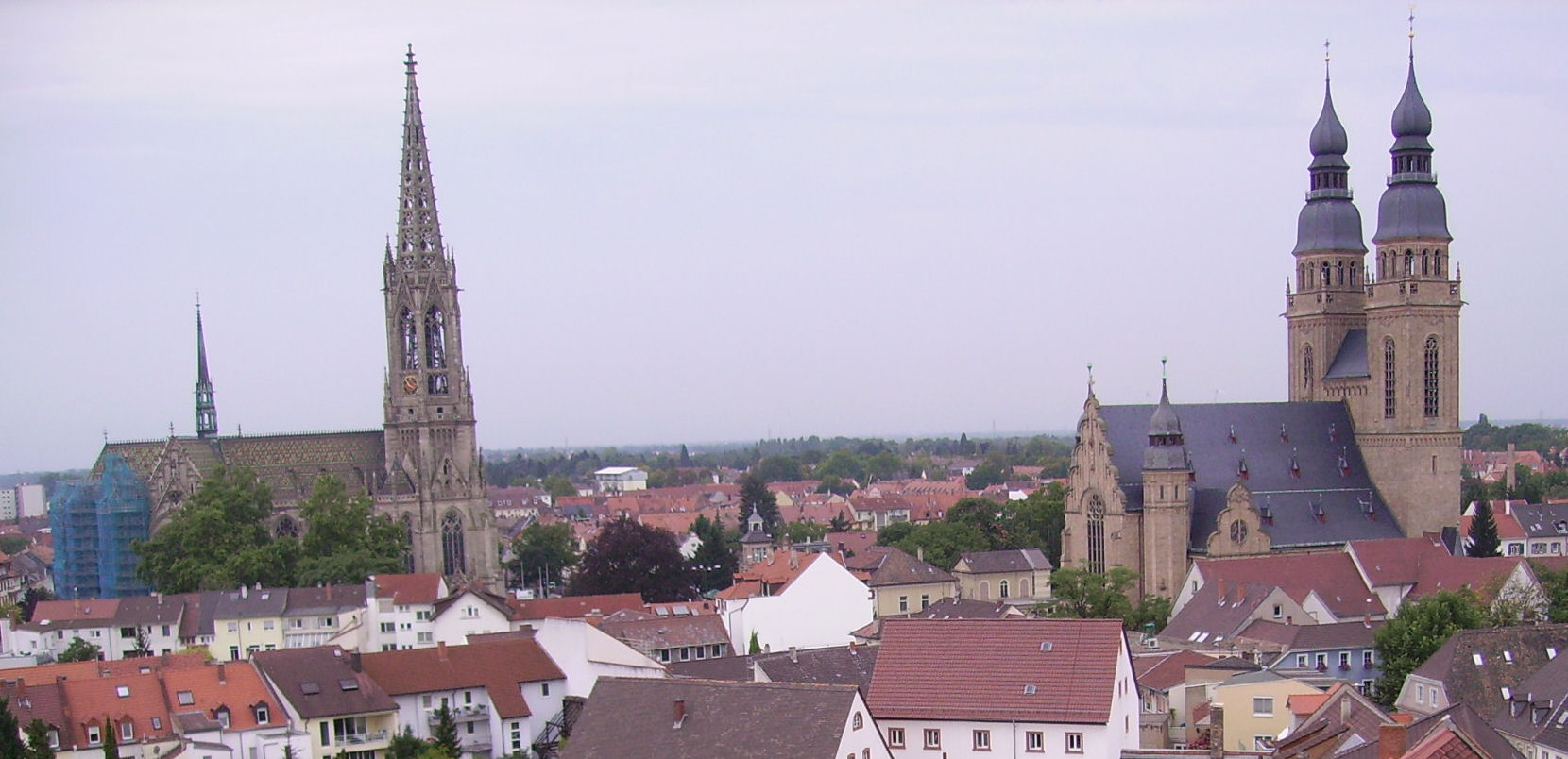 Altpörtel city gate in Speyer, Germany